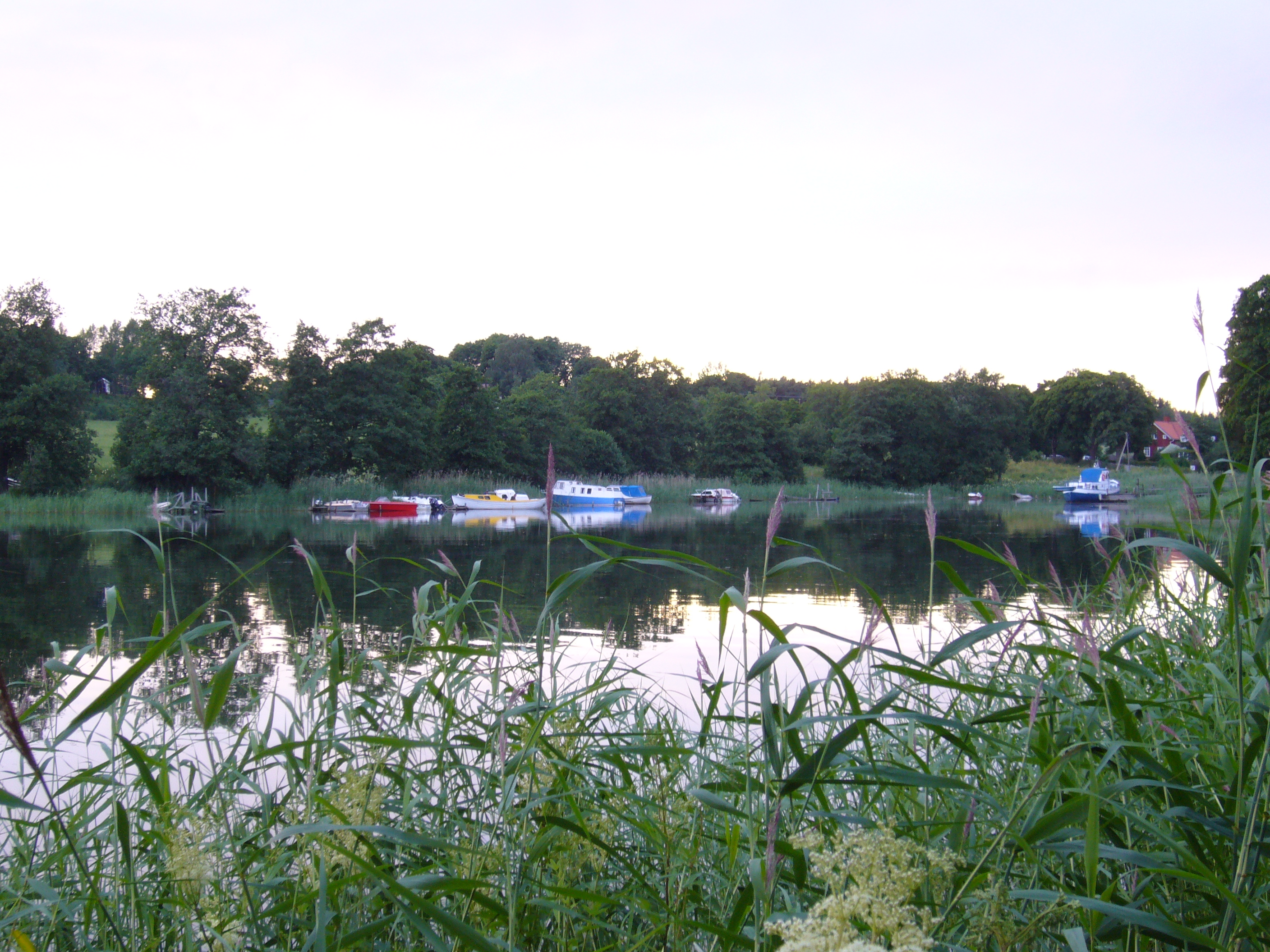 Kasteholm Castle grounds, Aland